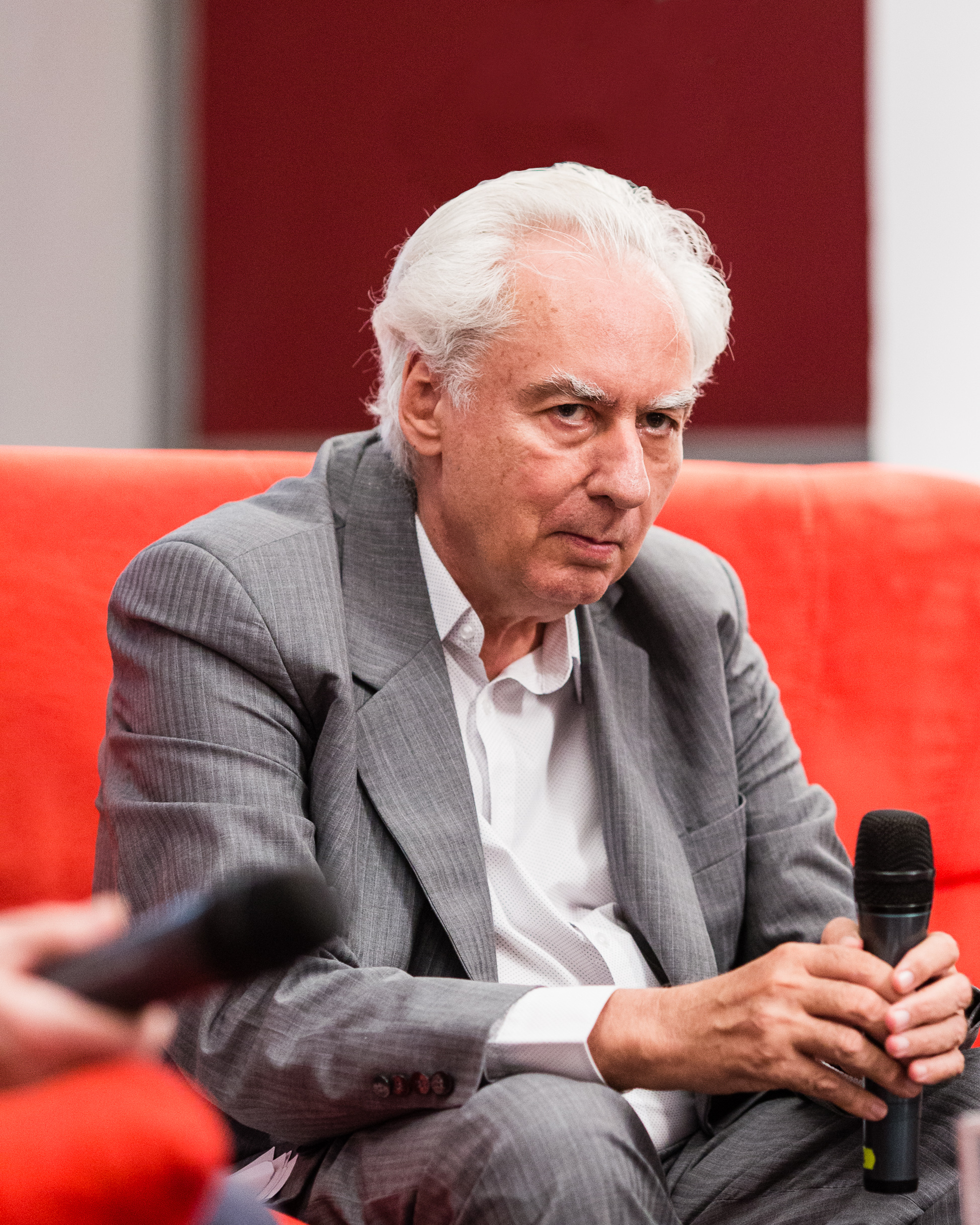 Lucian Boia on Authors’ Reading Month 2019, Wrocław, Poland